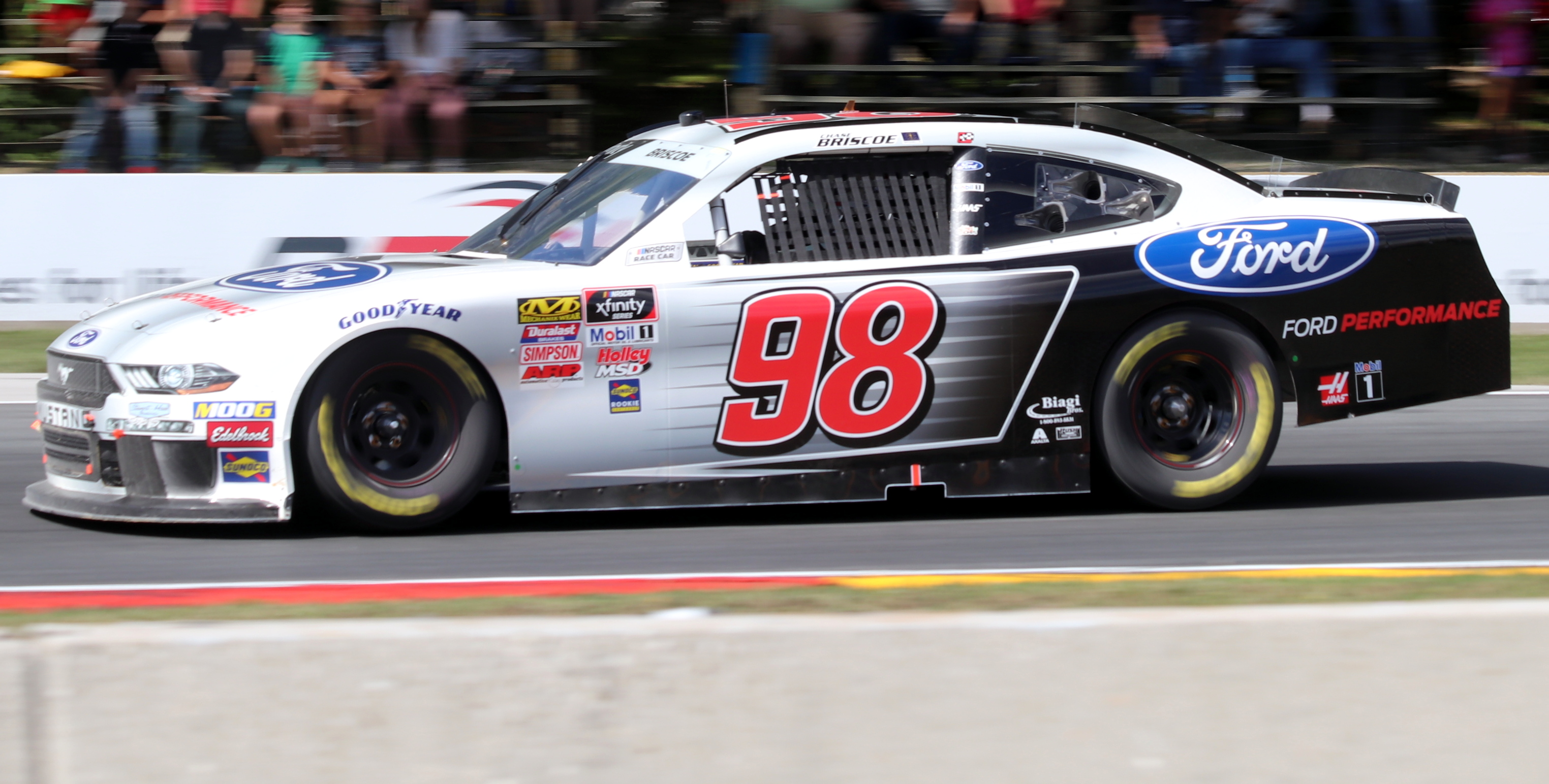 The #98 Ford Mustang of Chase Briscoe at the NASCAR CTECH 180.